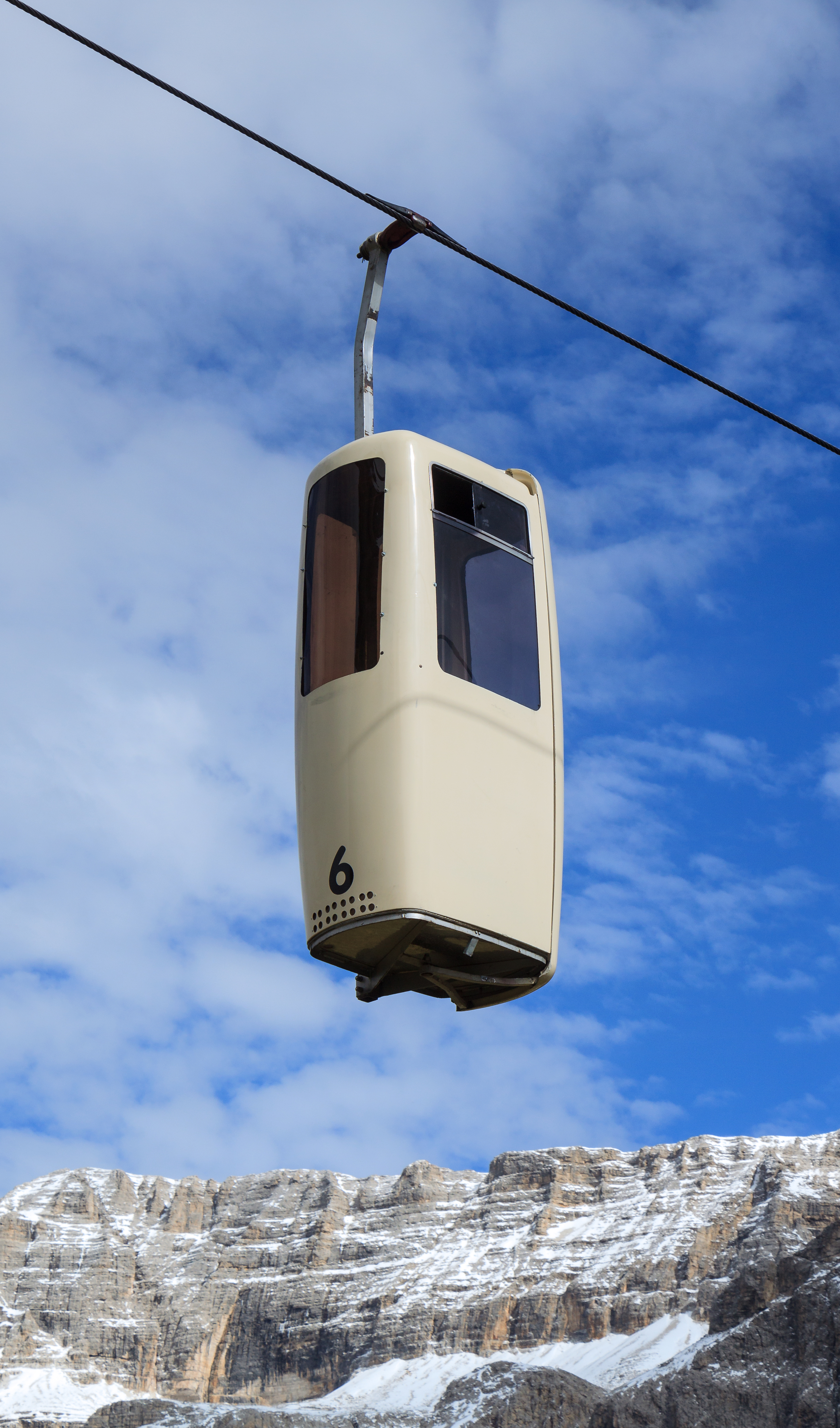 Gondola of the Telecabin Forcella del Sassolungo, Langkofel Group; Dolomites, Italy.